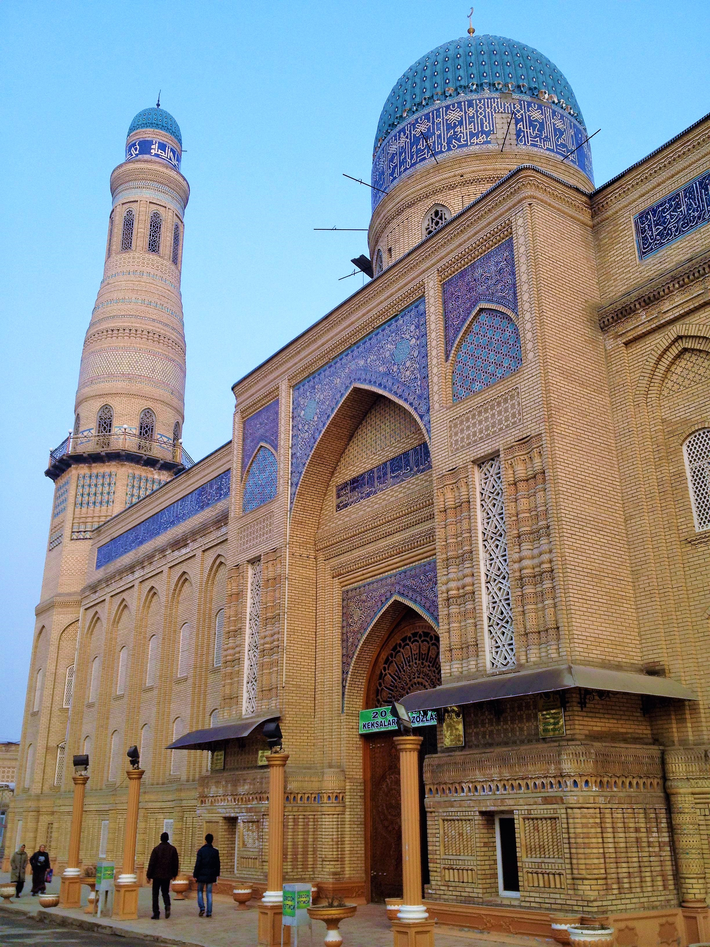 Andijon Jami Mosque